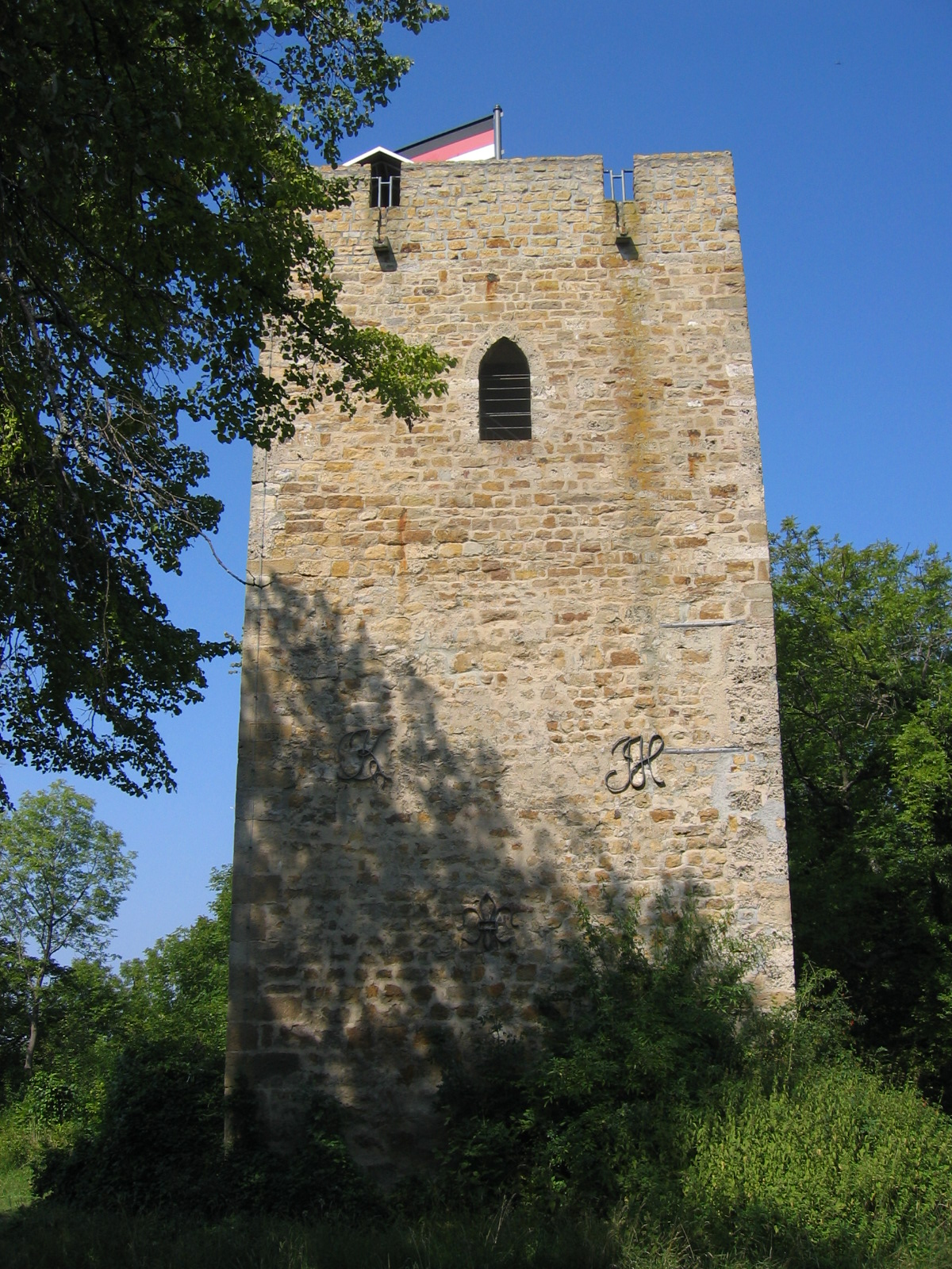 Tower at Ruine Achalm